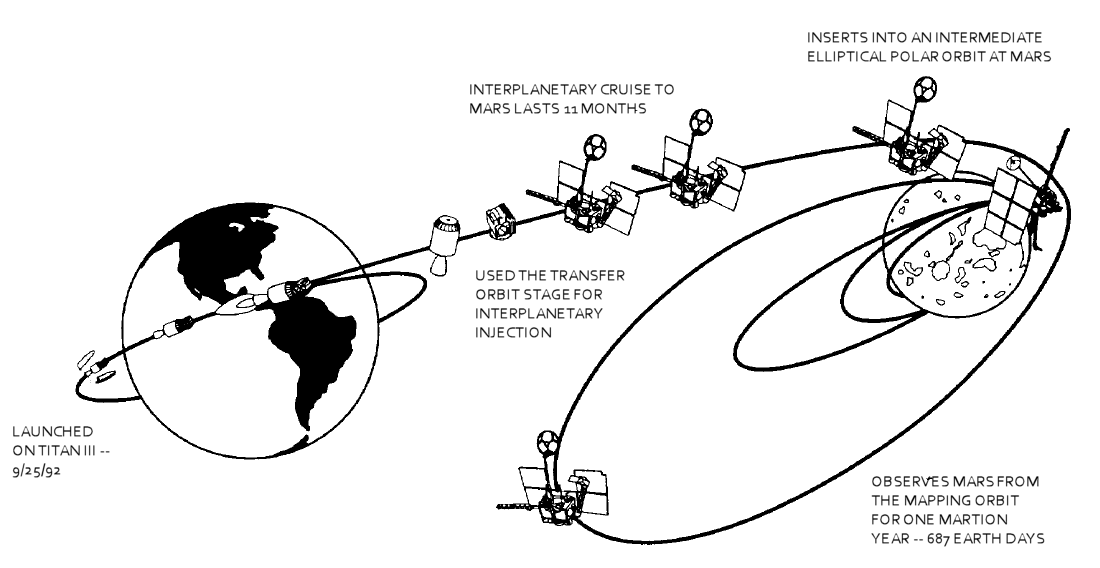 Planned trajectory of Mars Observer as launched from a Titan III launch vehicle.